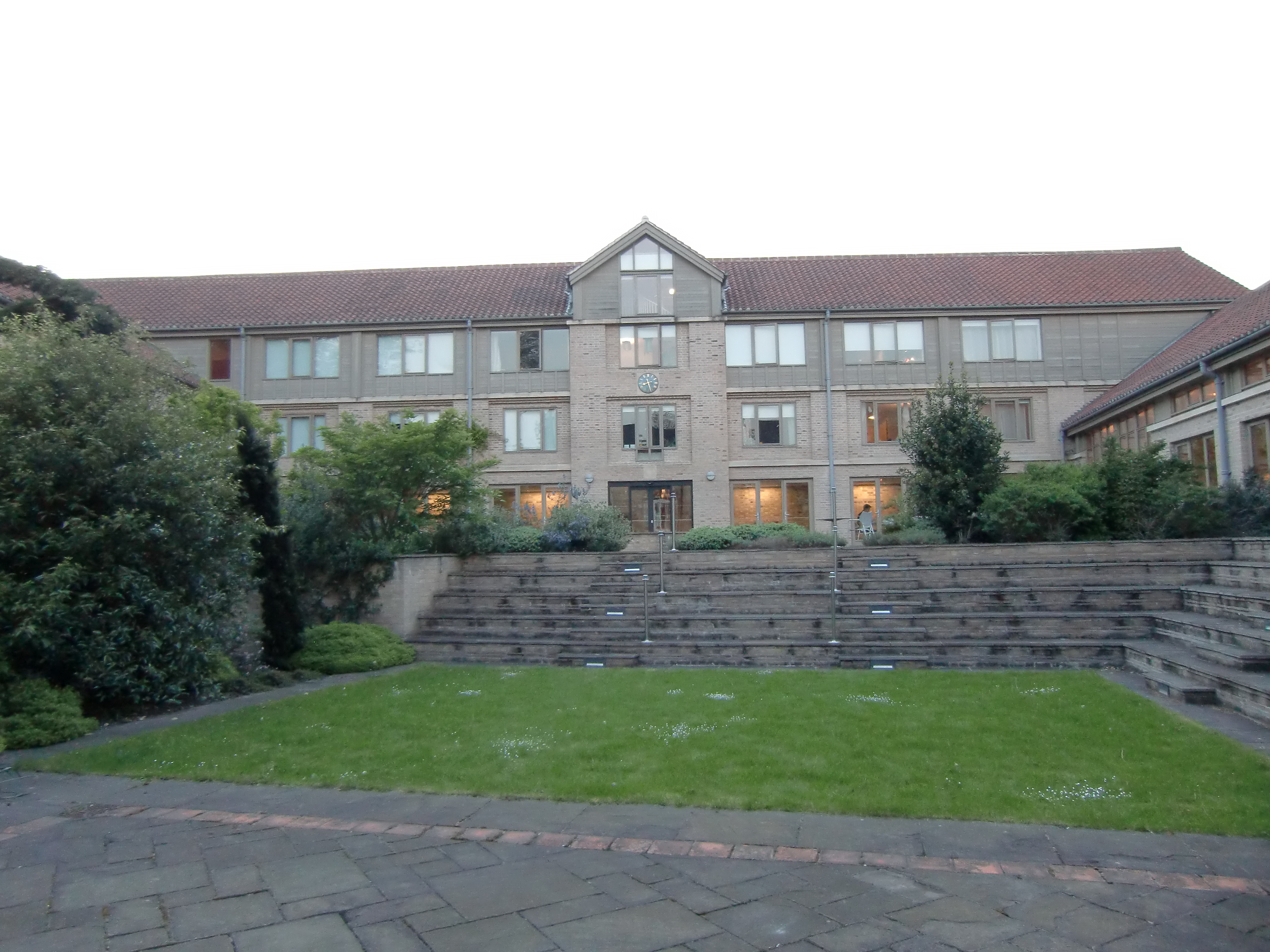 Cripps Court Garden, Magdalene College.